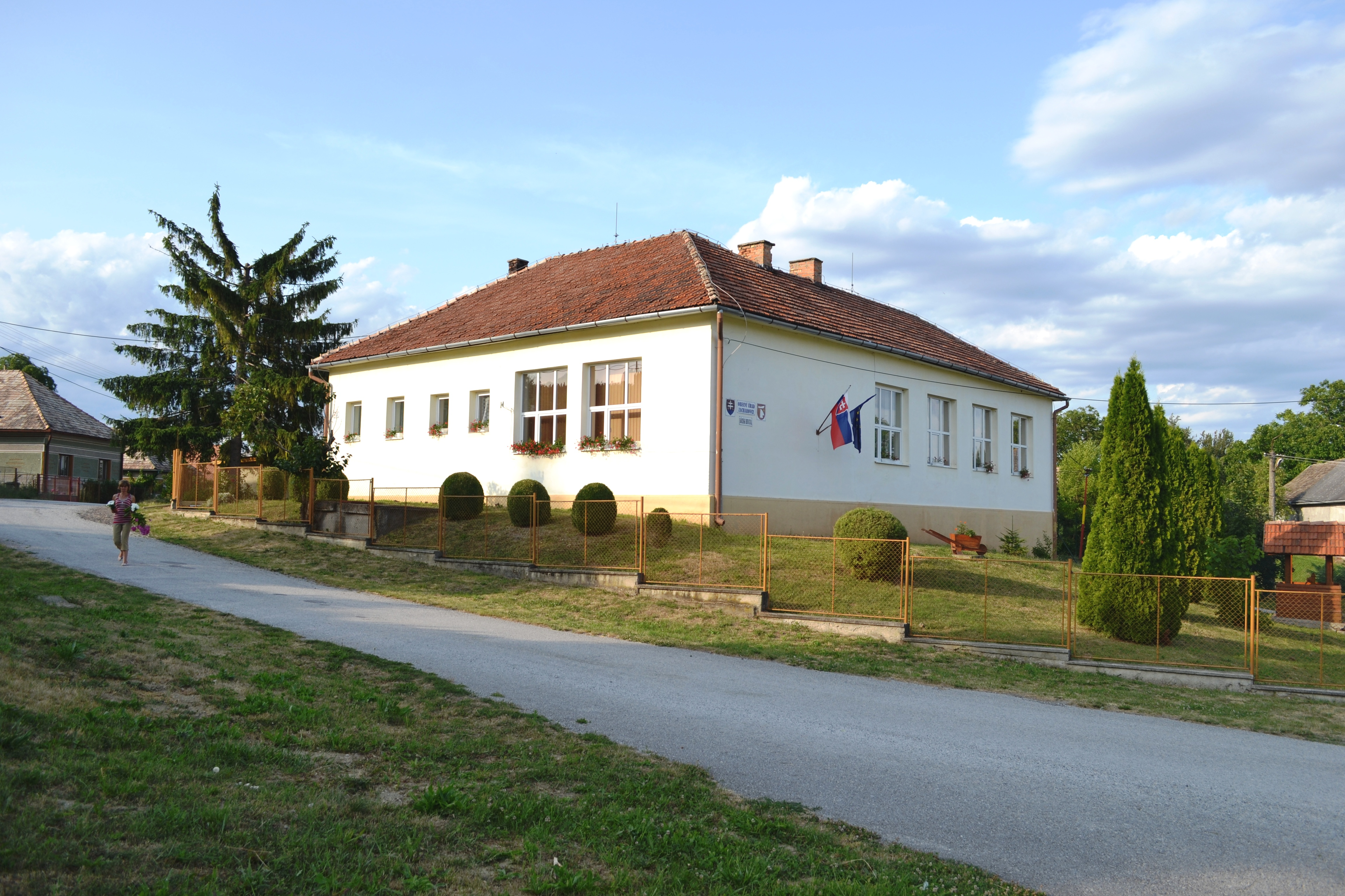 Municipal Office in the villageSlovenčina: Obecný úrad v Zacharovciach